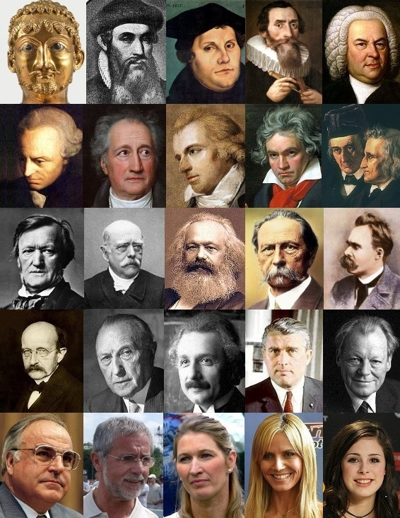 Mosaic with famous Germans